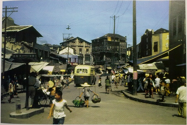 Streetscape in Chongqing